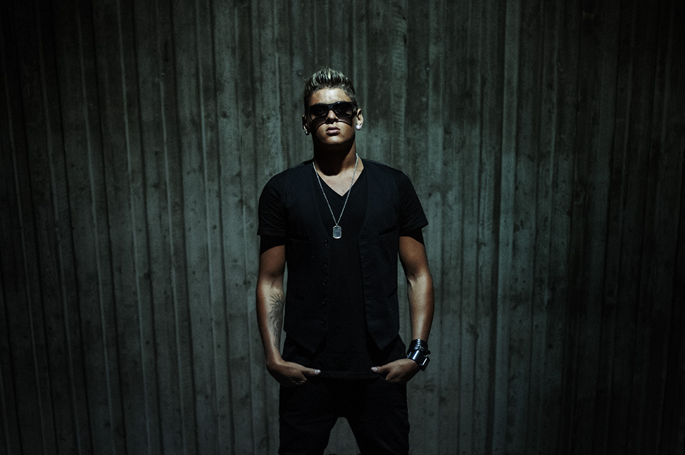 Samir